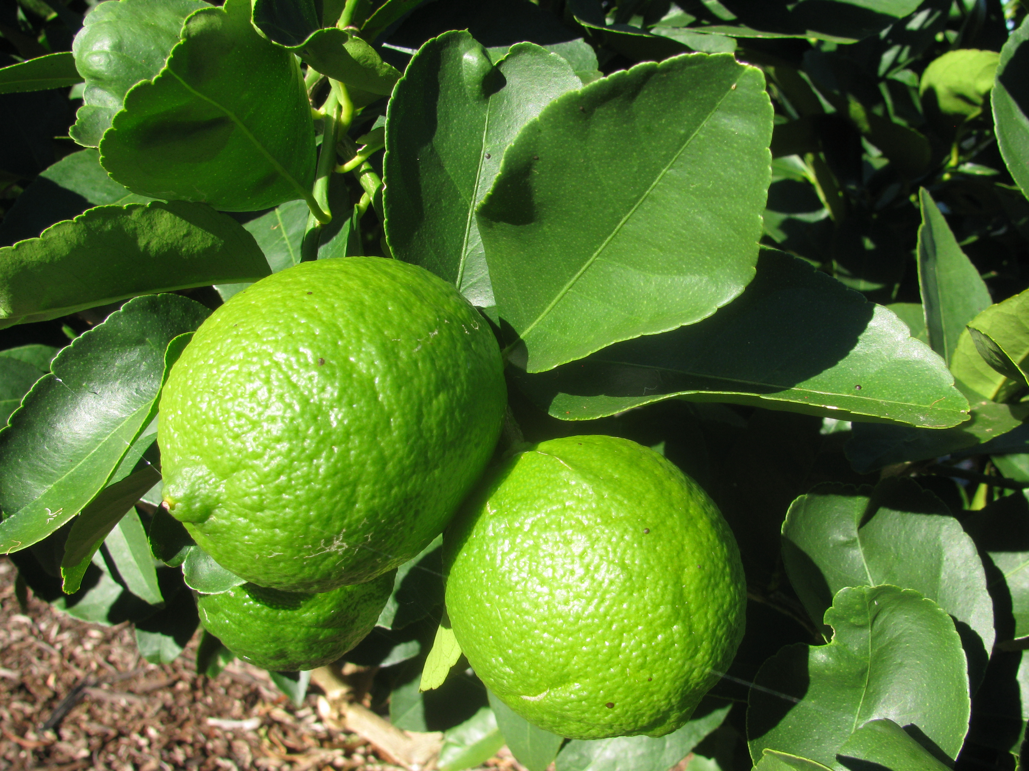 Citrus latifolia (Tahitian lime, Bearss lime, Persian lime) Tahitian fruit and leaves at Hawea Pl Olinda, Maui, Hawaii. January 17, 2014 #140117-3997 Image Use Policy Also known as Citrus x latifolia.